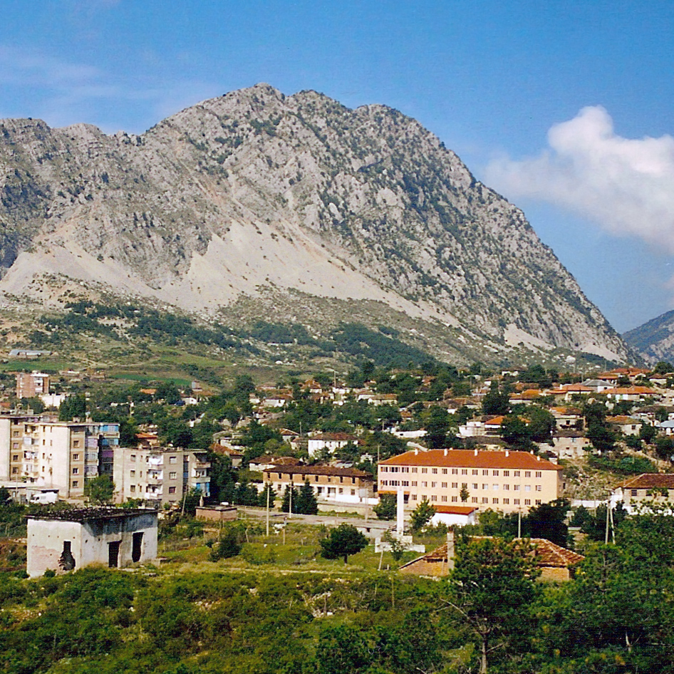 City of Leskovik, Albania, with Mali i Melesinit in the back